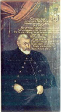 Jerzy Boim